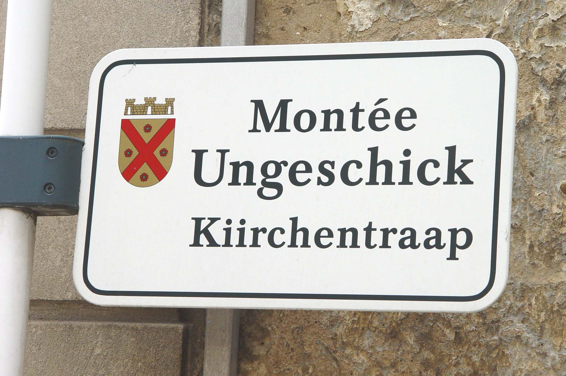 A sign in Luxembourg, in Luxembourgish.